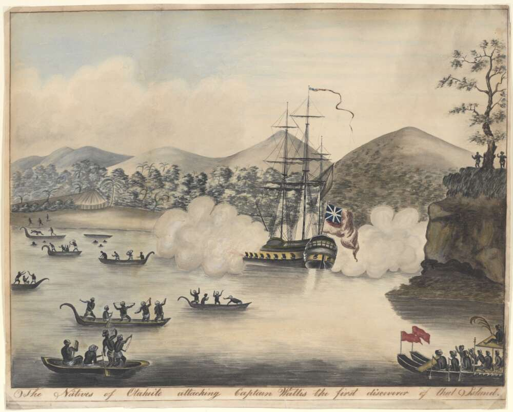 The Natives of Otaheite Attacking Captain Wallis the First Discoverer of That Island by an unknown artist